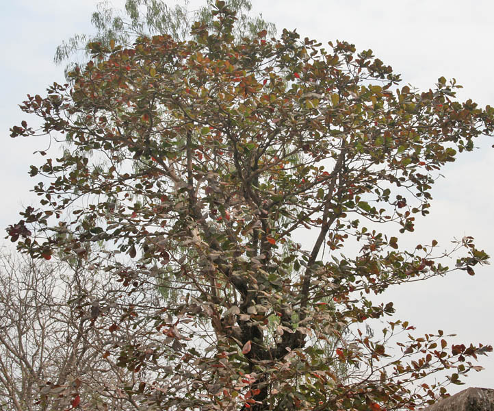 Desi Badam Terminalia catappa in Kolkata, West Bengal, India.